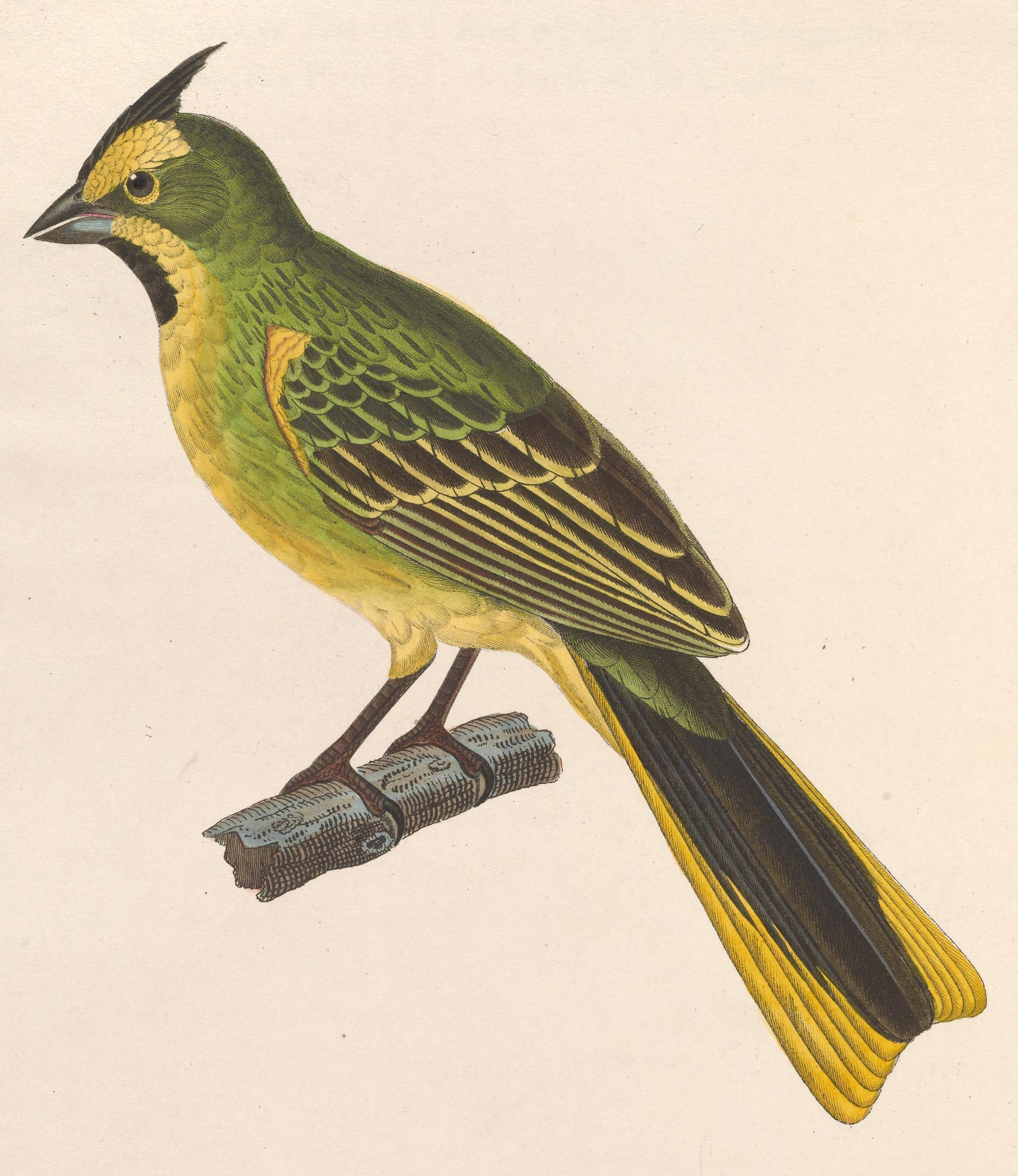 « Emberiza gubernatrix » = Gubernatrix cristata (Yellow Cardinal) - male